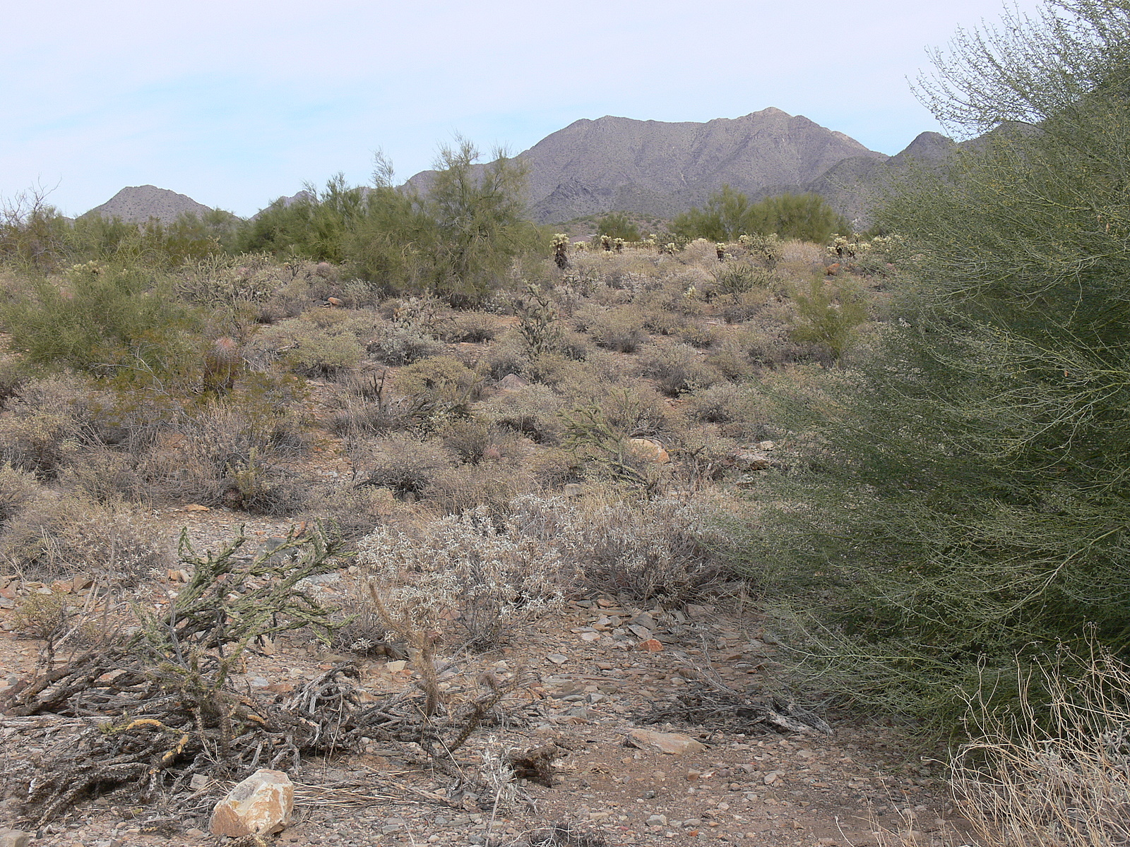 The image was personaly taken by me in December 2006. Wars 04:43, 18 December 2006 (UTC)